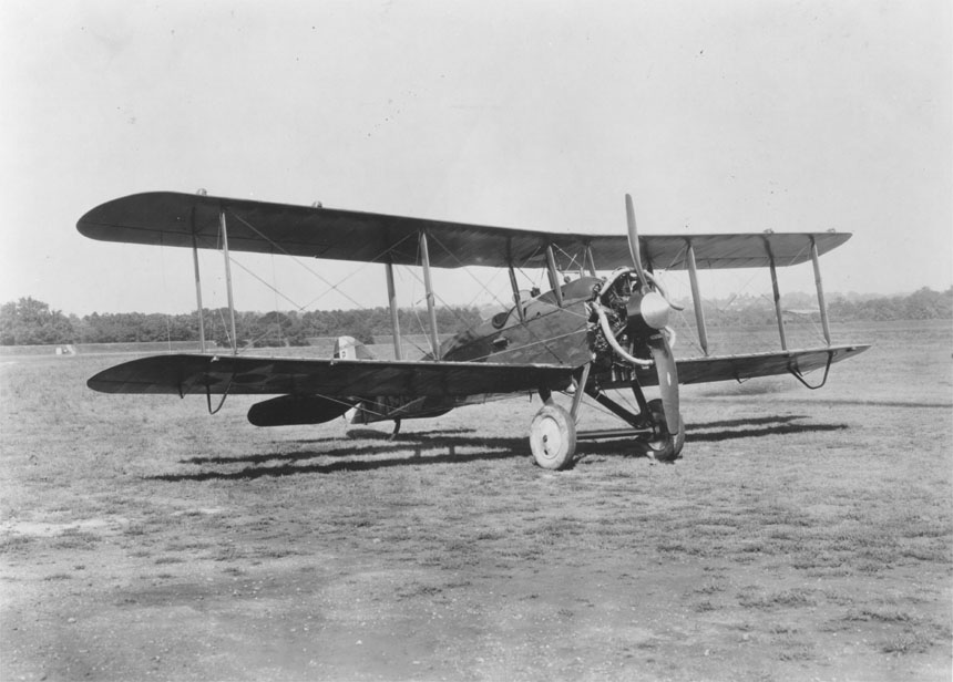 Wright Radial Engine (R-1) in a De Havilland DH-4B airplane. (33382 A.C.)